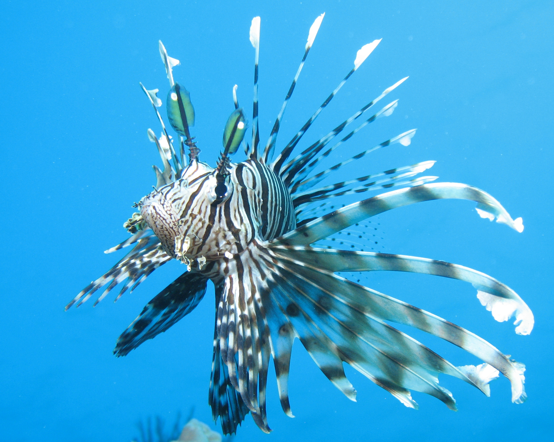 Common Lionfish (Pterois miles) near Marsa Alam, Egypt.